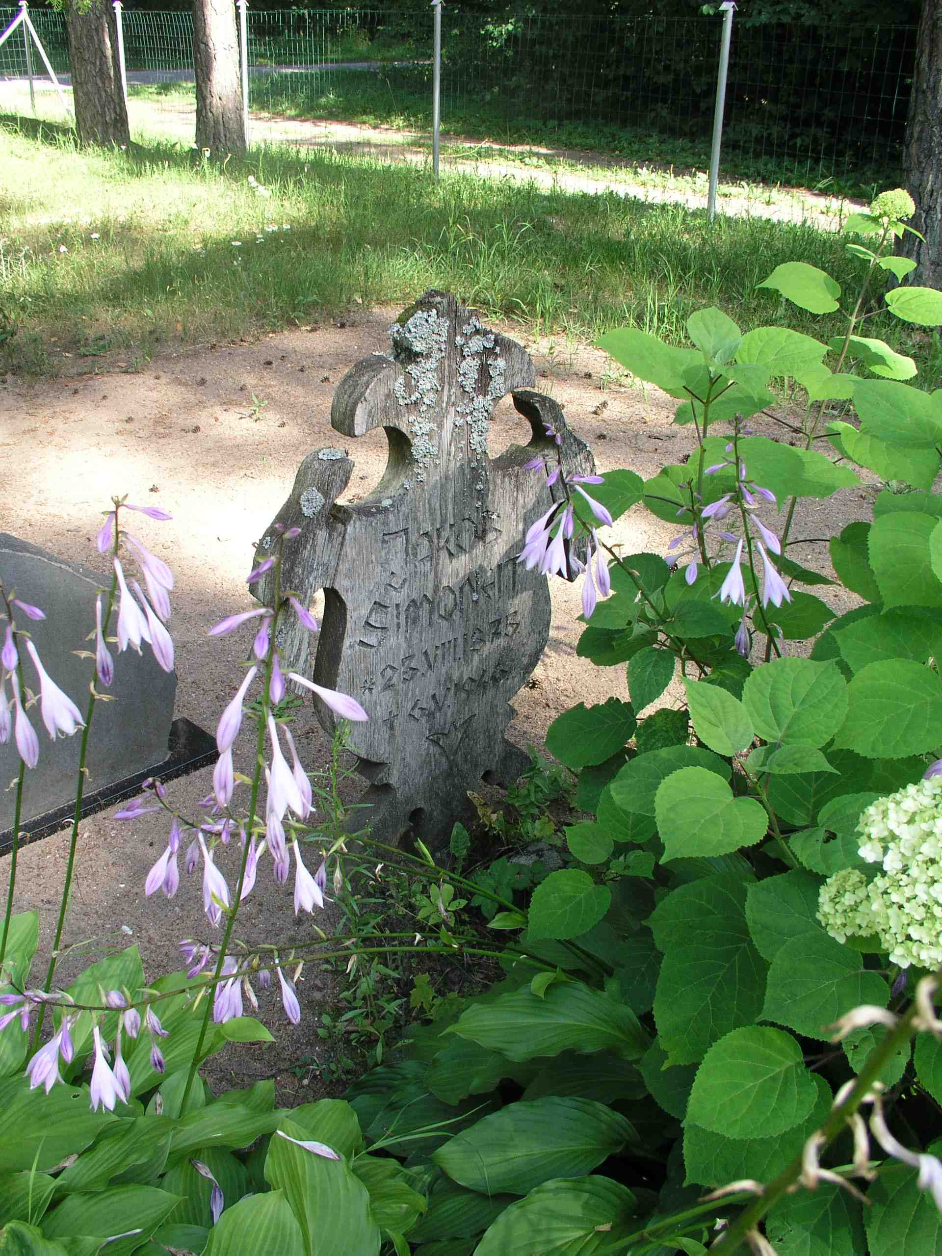 Vanagai